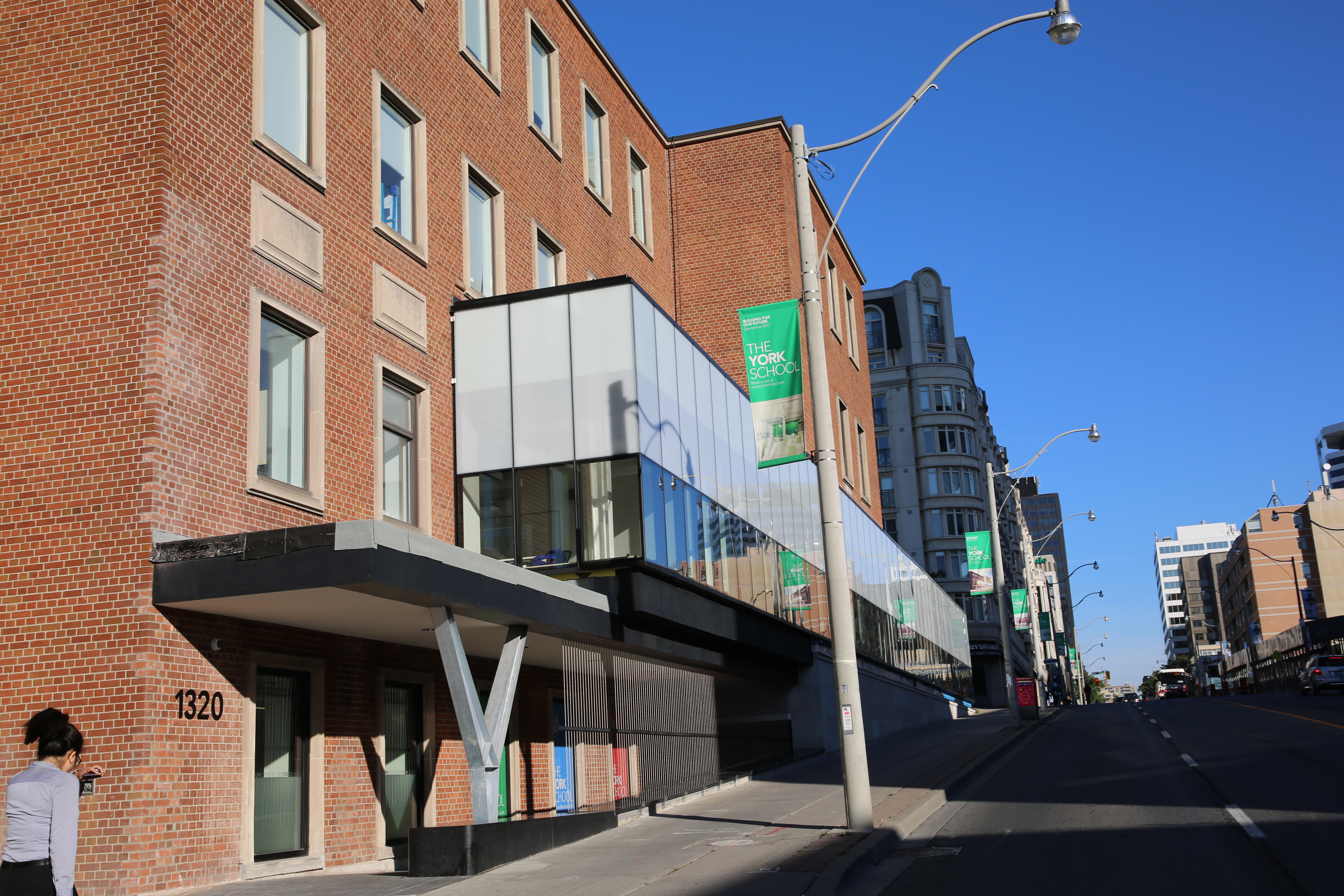 2018 Renovation